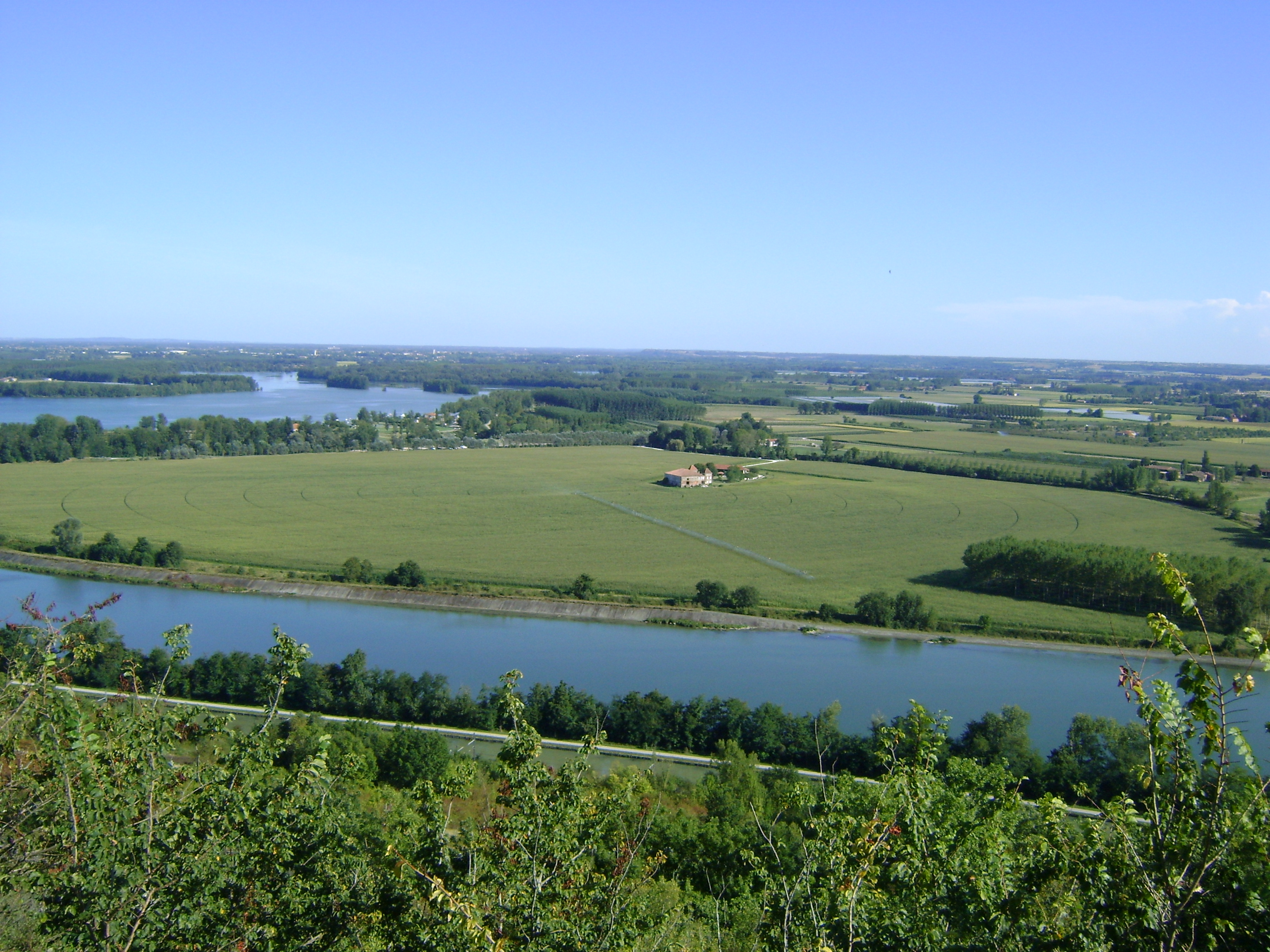 Confluence between Tarn and Garonne, near Saint-Nicolas-de-la-Grave (Tarn et Garonne, France)